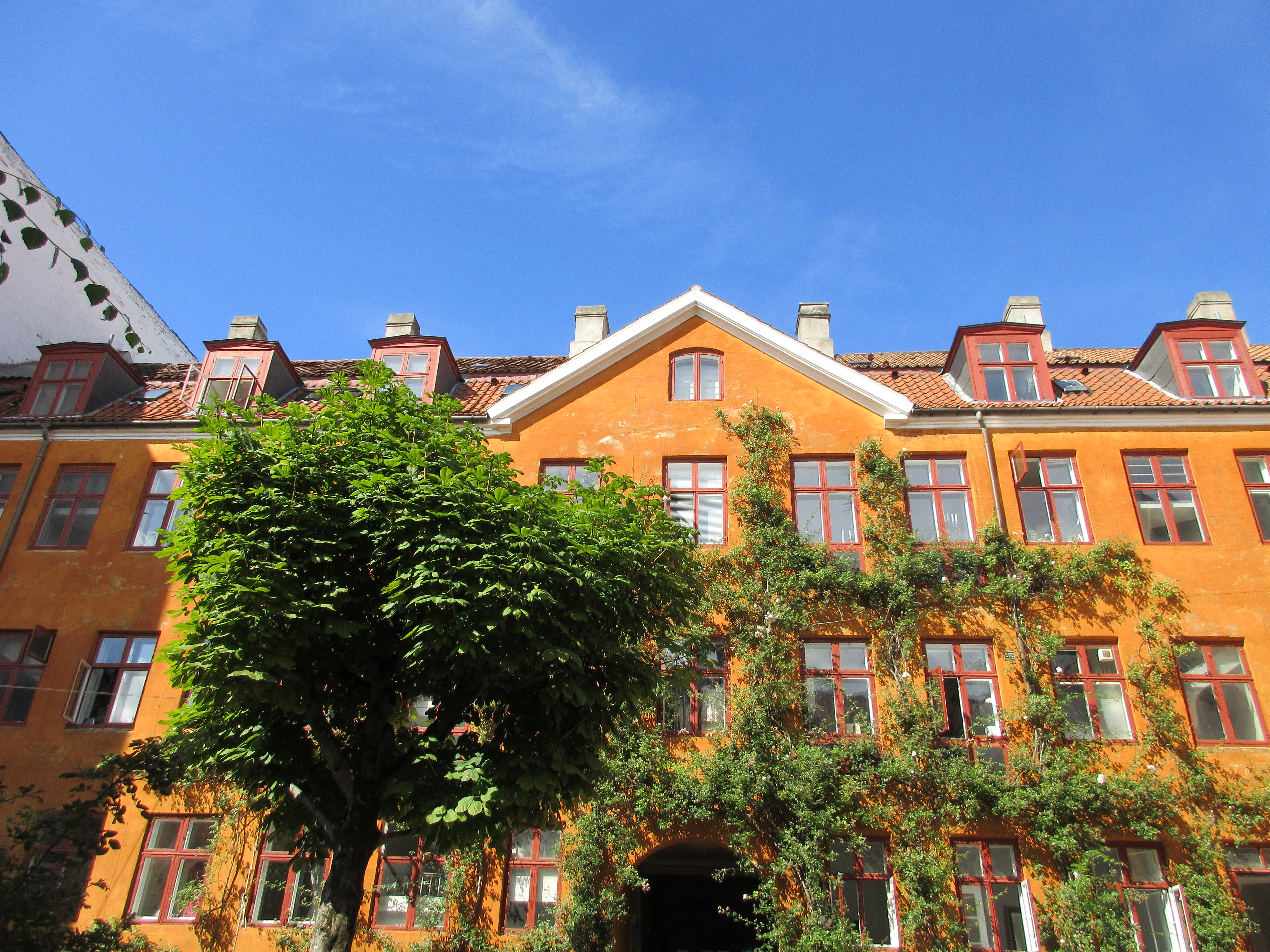 Rear view of the main wing of Christians Plejehus in Store Kongensgade in Copenhagen, Denmark